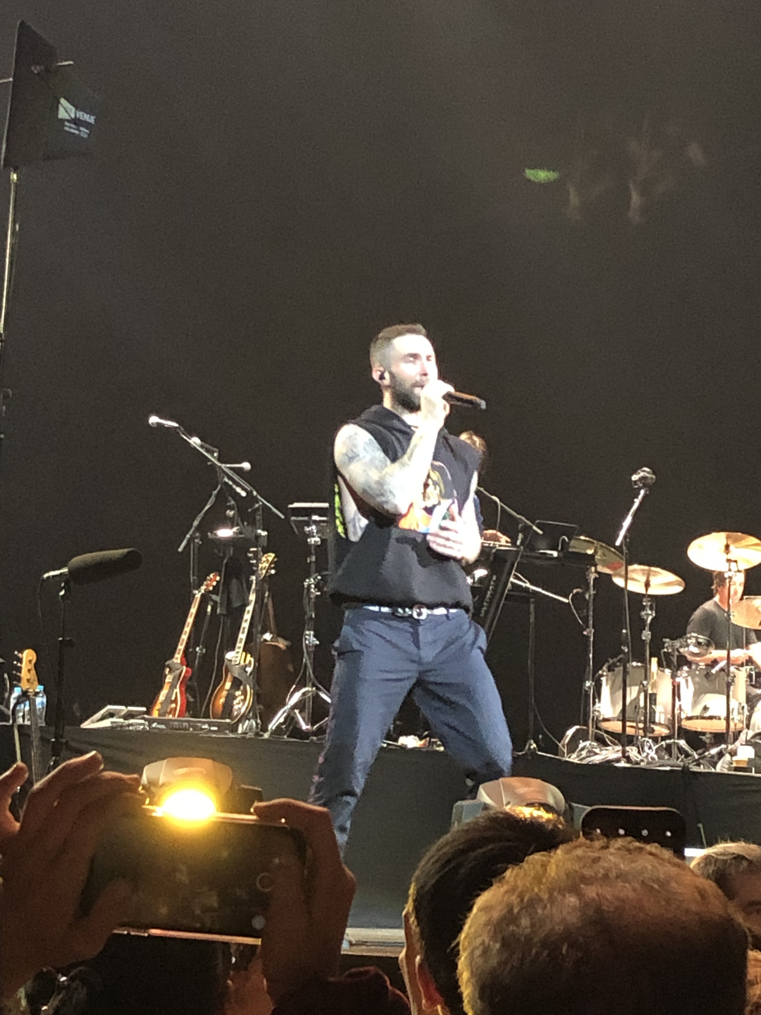 Maroon 5 frontman Adam Levine performing in Sydney, Australia in February 2019.